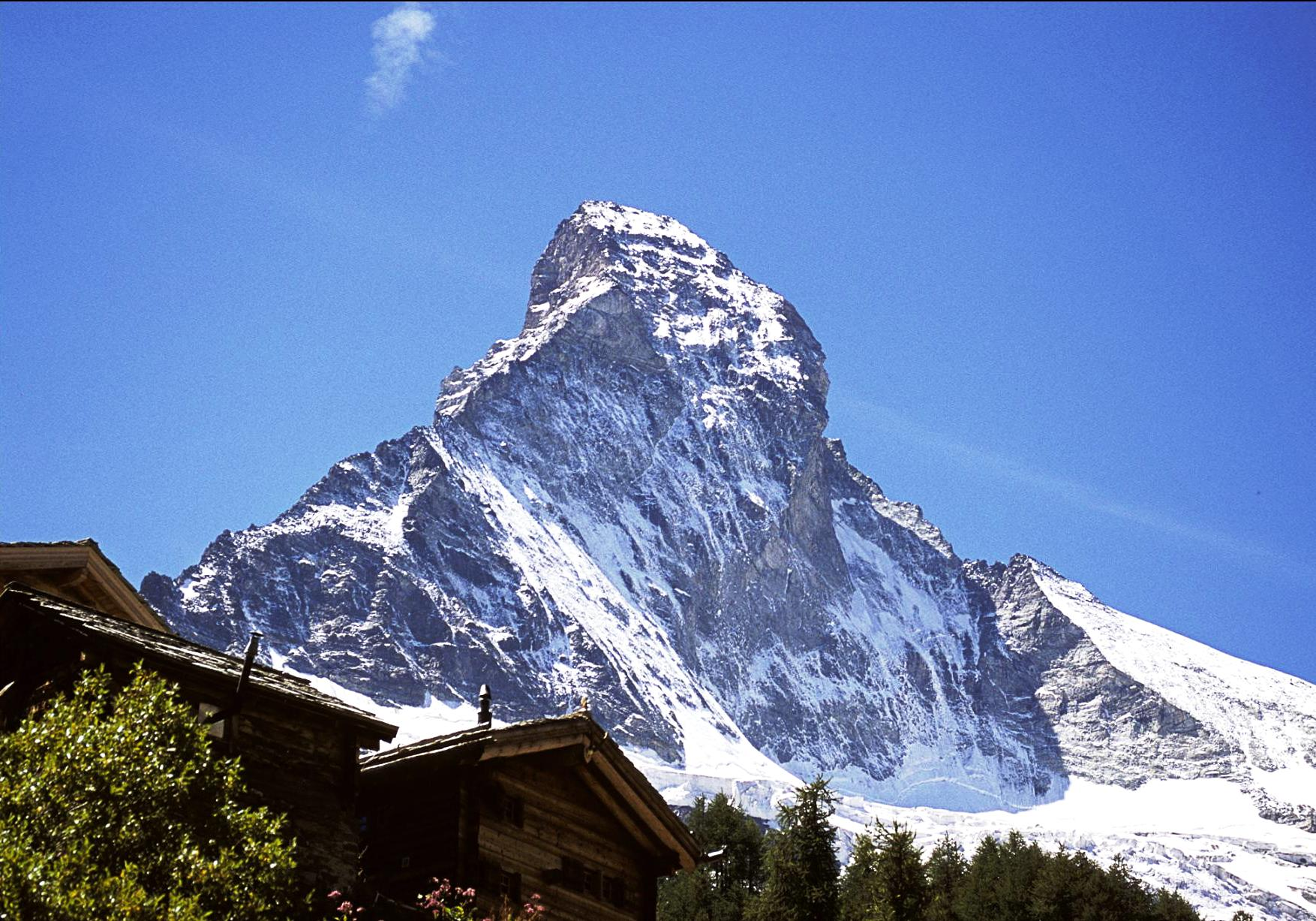 The Matterhorn from Stafelalp